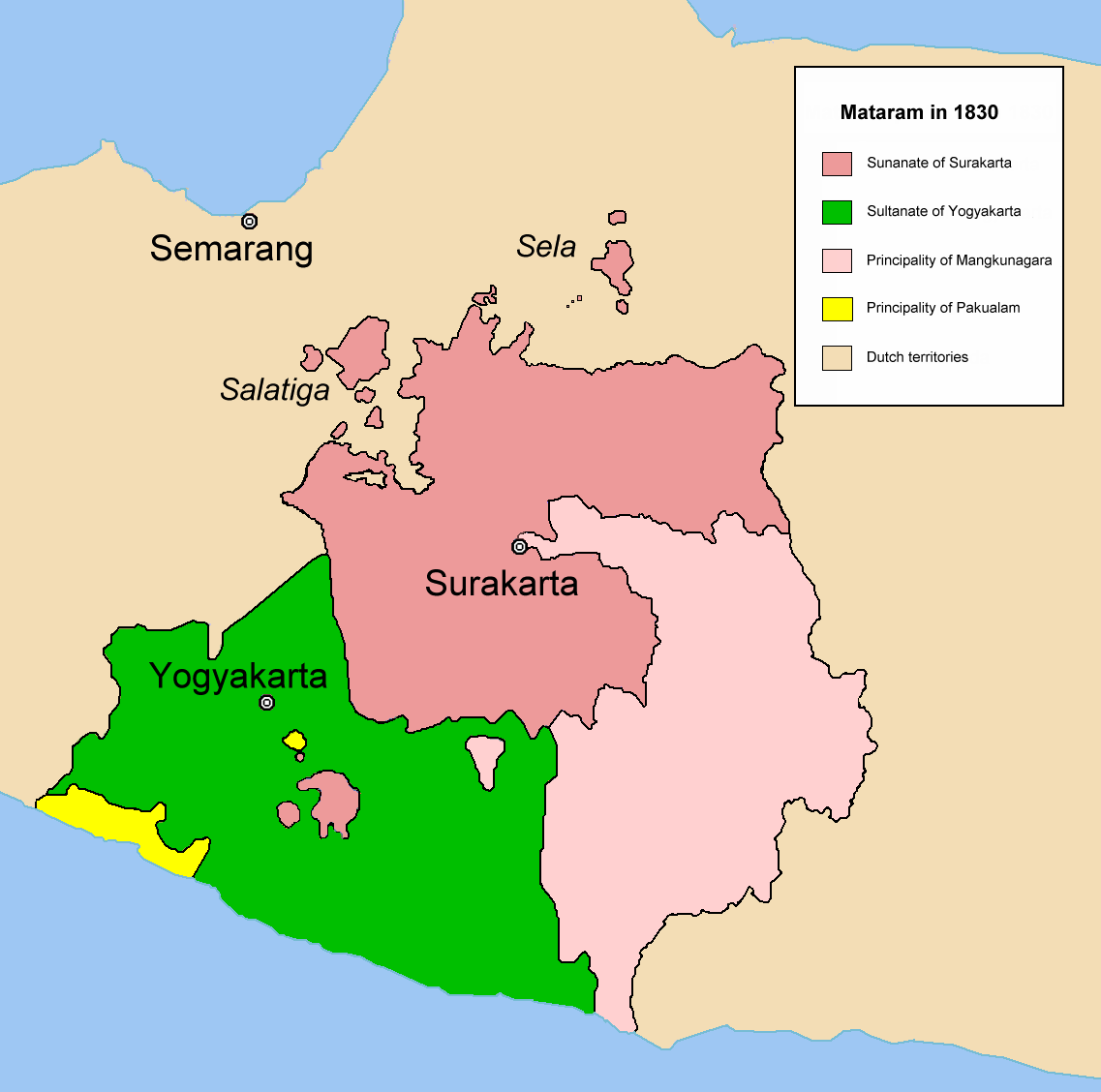 Map of Neuw Mataram after the Java War in 1830. This map was drawn by Meursault2004 alias Revo Arka Giri Soekatno. Source: Robert Cribb, 2000, Historical Atlas of Indonesia page 114. Gambar:Mataram Baru 1830.png Afbeelding:Mataram 1830-nl.png